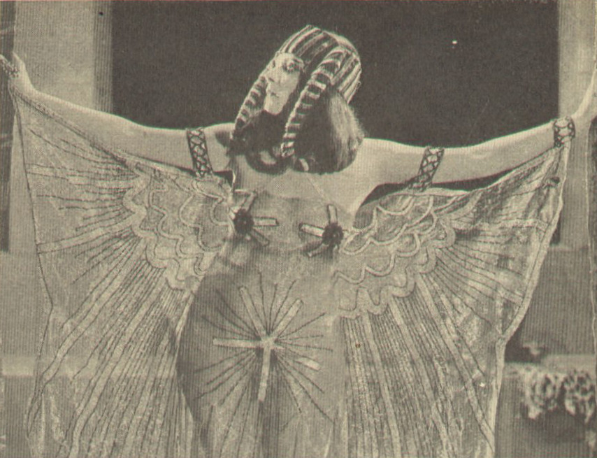 Cleopatra as portrayed by Theda Bara in the American film Cleopatra (1917), in a costume of dubious historical accuracy.